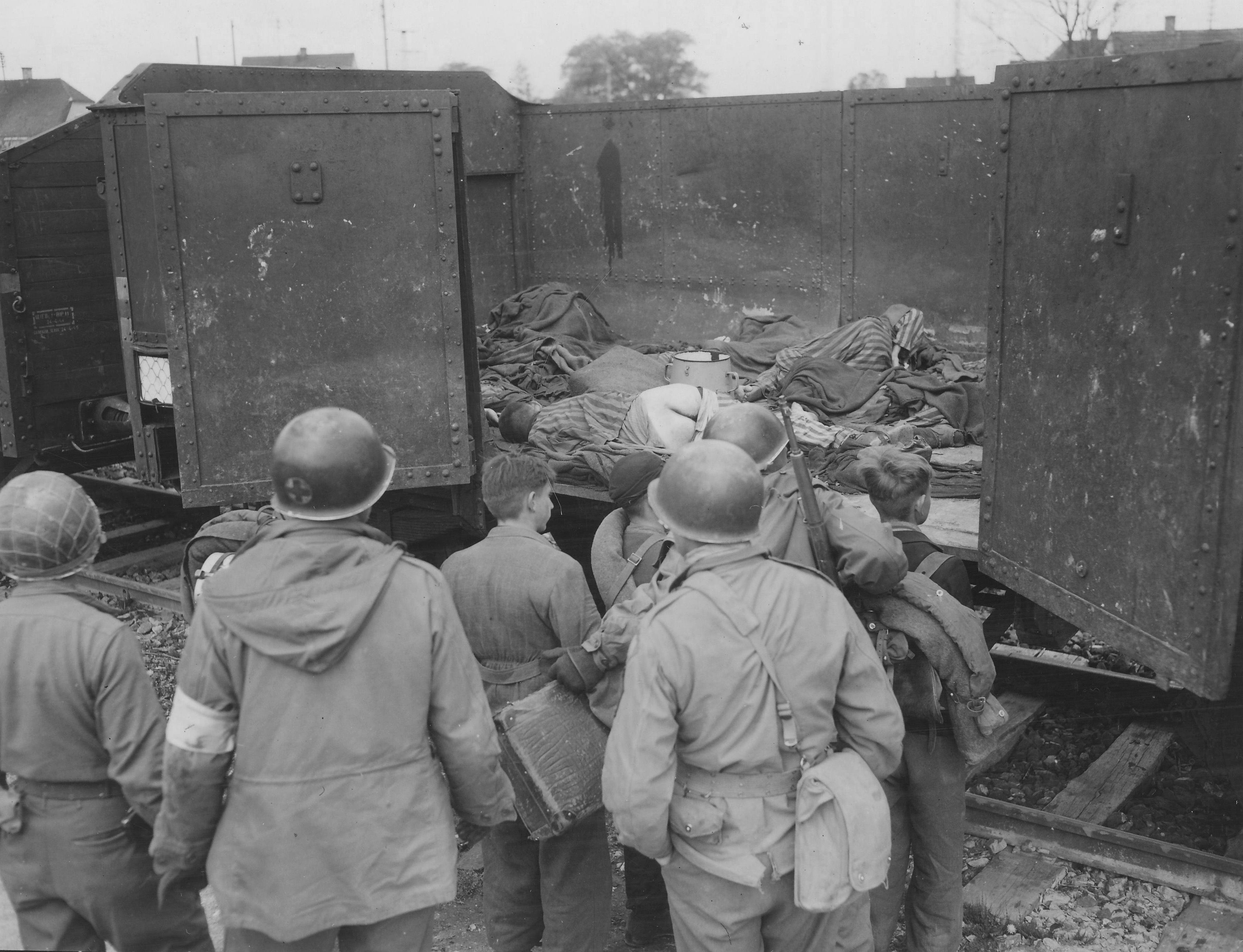 45th Infantry Division troops force suspected Hitler Youth members to view the bodies found in rail cars at Dachau Concentration Camp. III-SC 264814, Credit NARA.